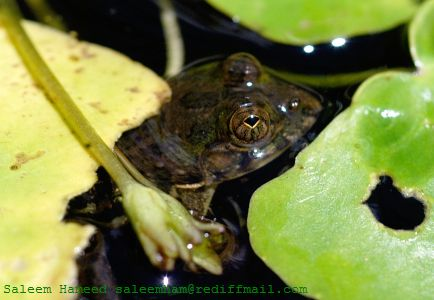 Euphlyctis cyanophlyctus, India